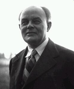 Otto Rühle (23 October 1874 in Großschirma – 24 June 1943 in Mexico) was a student of Alfred Adler and a German Marxist active in opposition to both the First and Second World Wars.